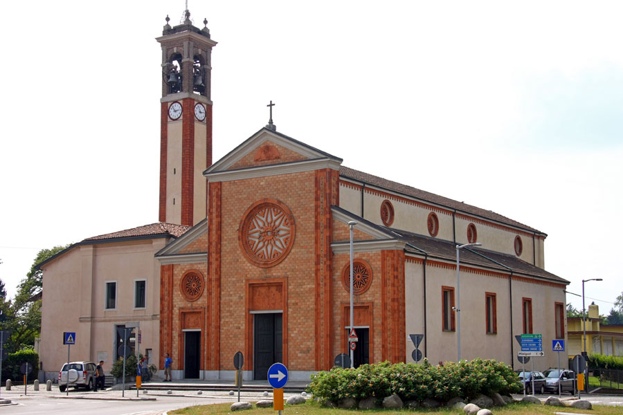 View of Vergiate, Varese, Italy